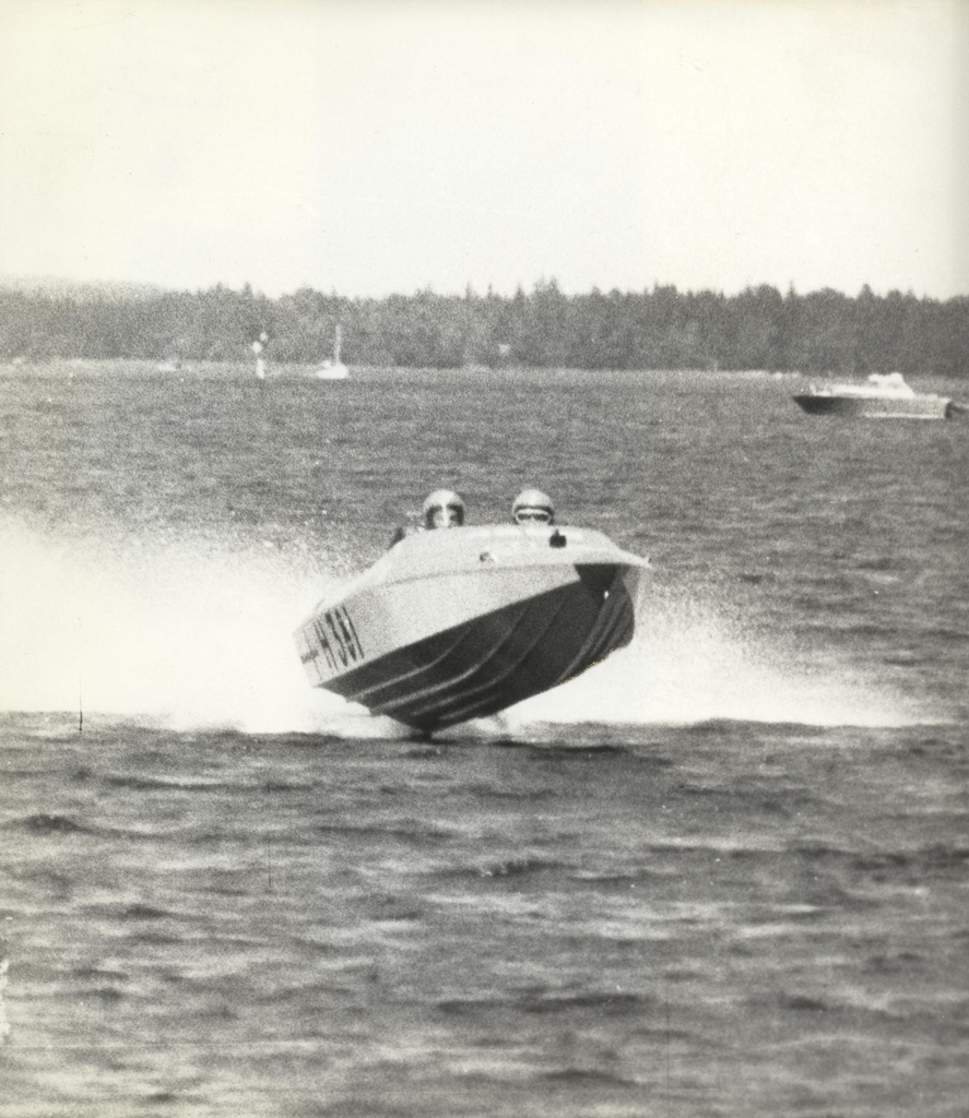 Argo monohull racing boat